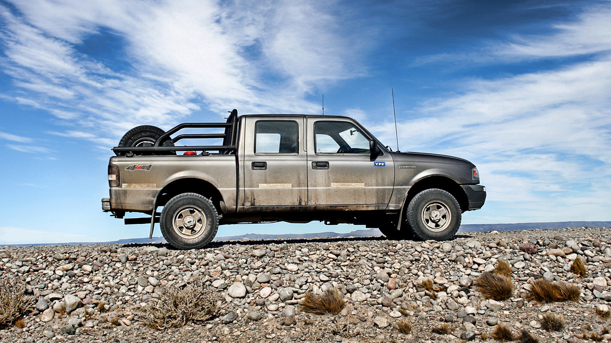 Ford Ranger Crew Cab (Double Cab) variant in Argentina